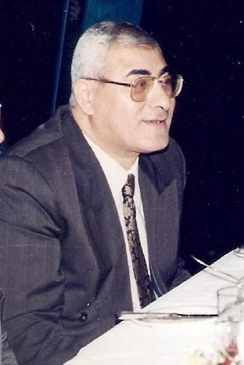 Former Egyptian President Adly Mansour.